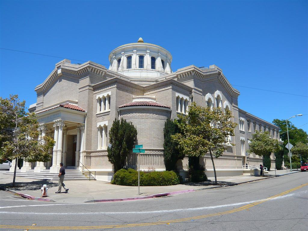 Exterior of Temple Sinai – First Hebrew Congregation of Oakland corner of 28th and Webster view